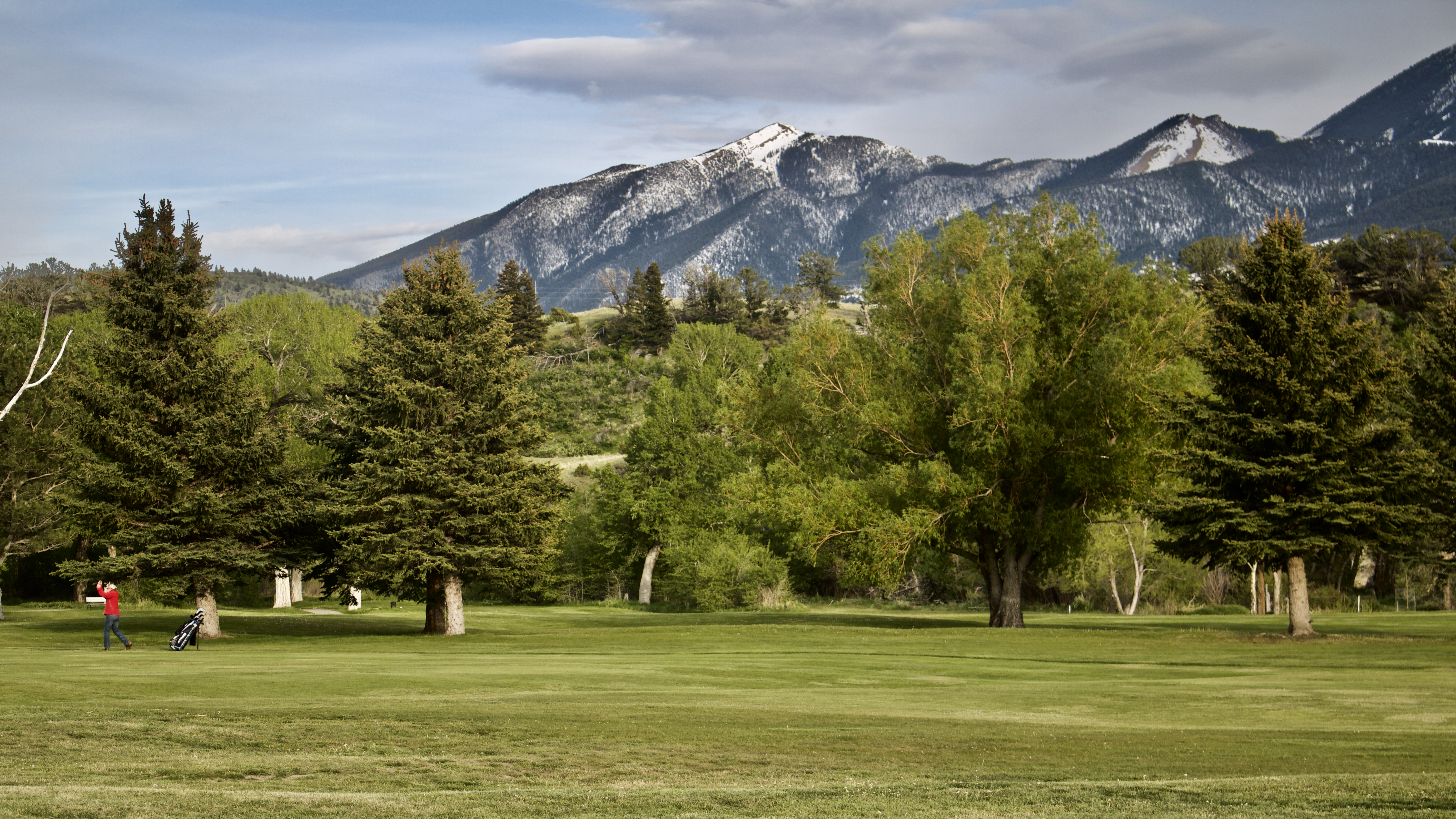 Livingston Golf and Country Club, Livingston, MT, Absaroka Range in the background